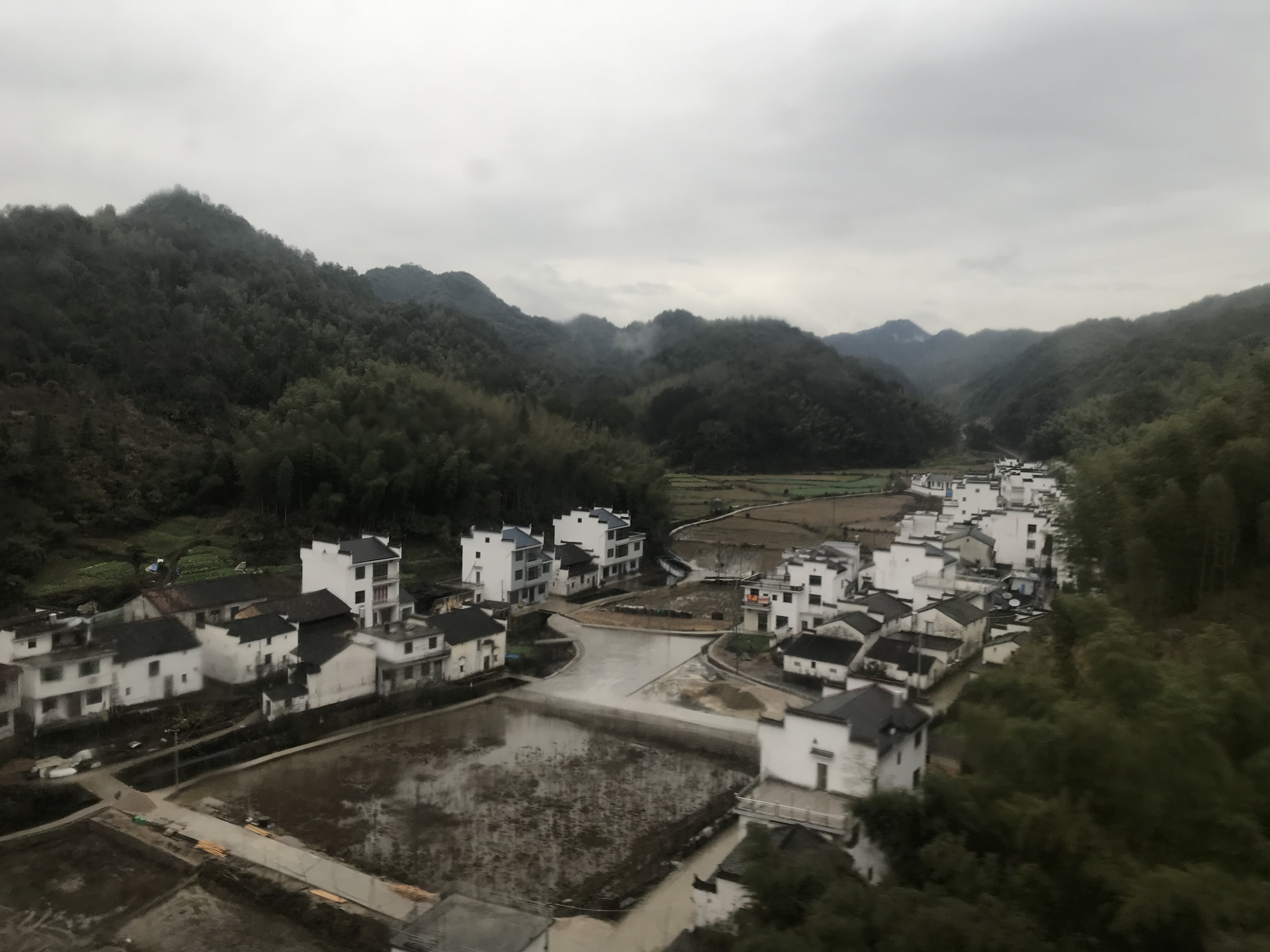 201901 Yinfeng Village, Zhongyun, Wuyuan